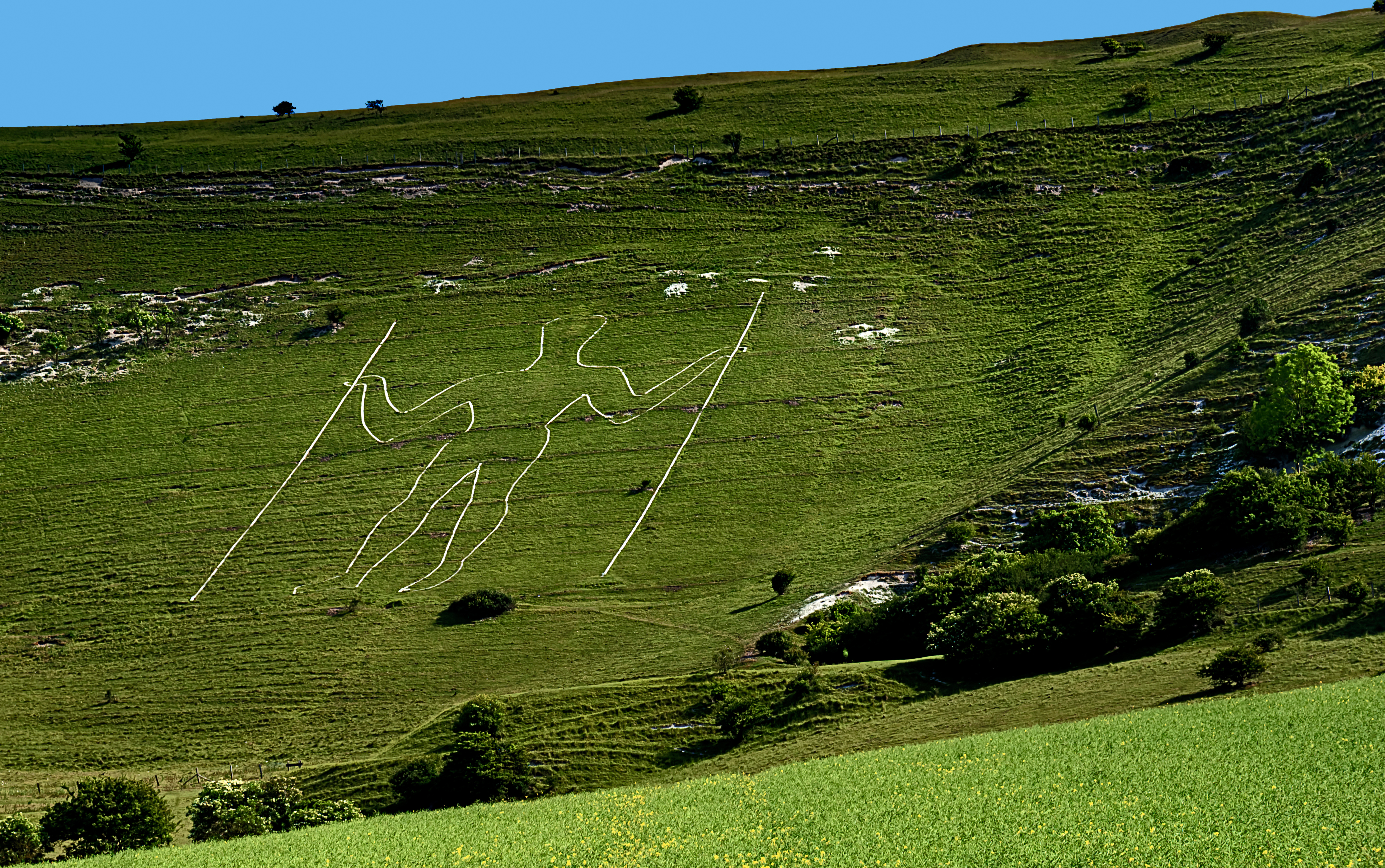 The Long Man of Wilmington on South Downs in Sussex, UK